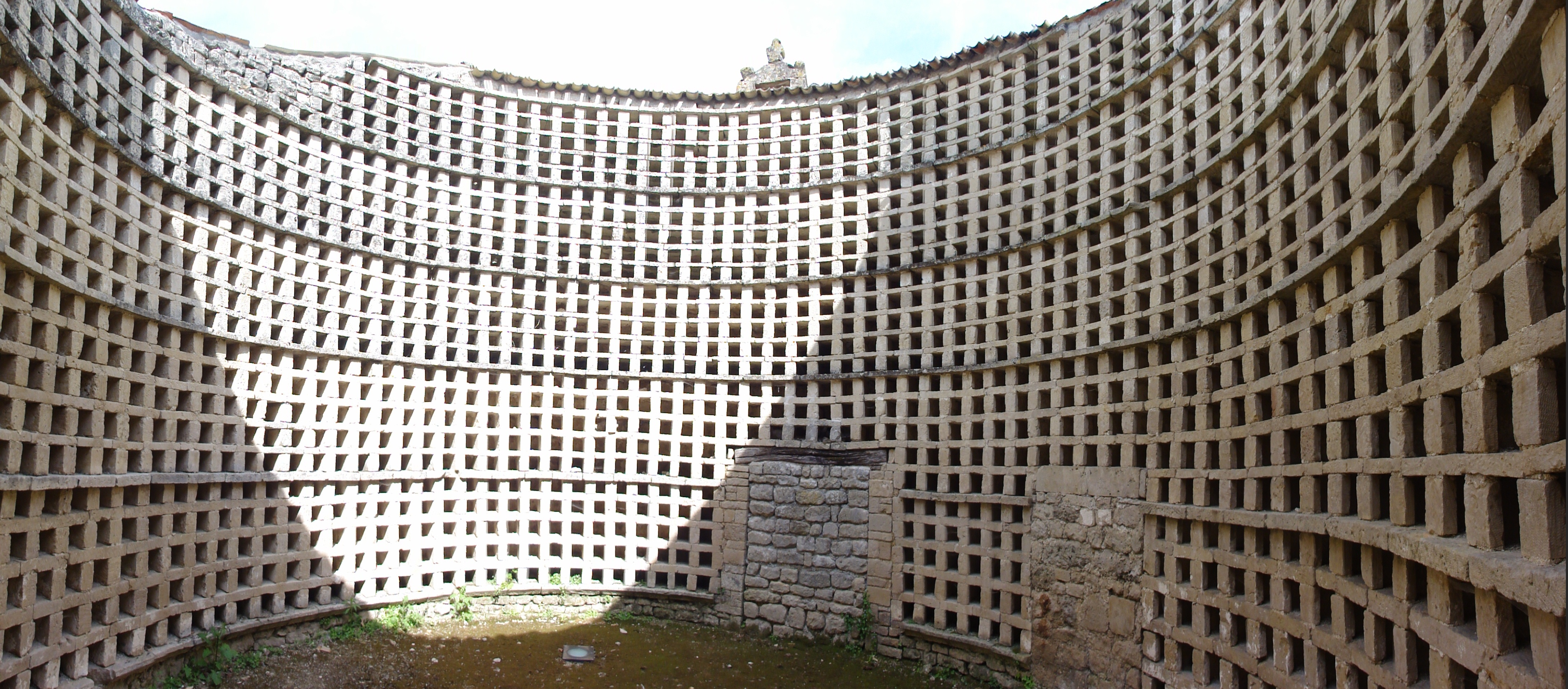 Aulnay-de-Saintonge, colombier, "panorama par mouvement"